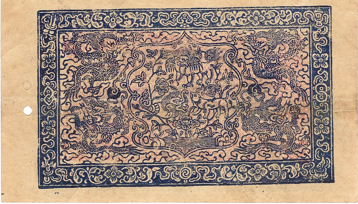 Tibetan 10 srang banknote, dated T.E. 1692 (AD 1946), Reverse